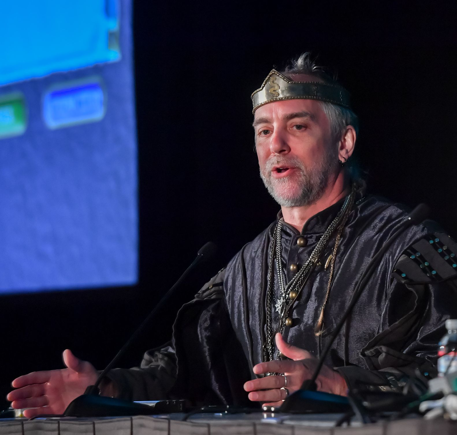 Richard Garriott at the 2018 Game Developers Conference (March 20-22, 2018, SF)